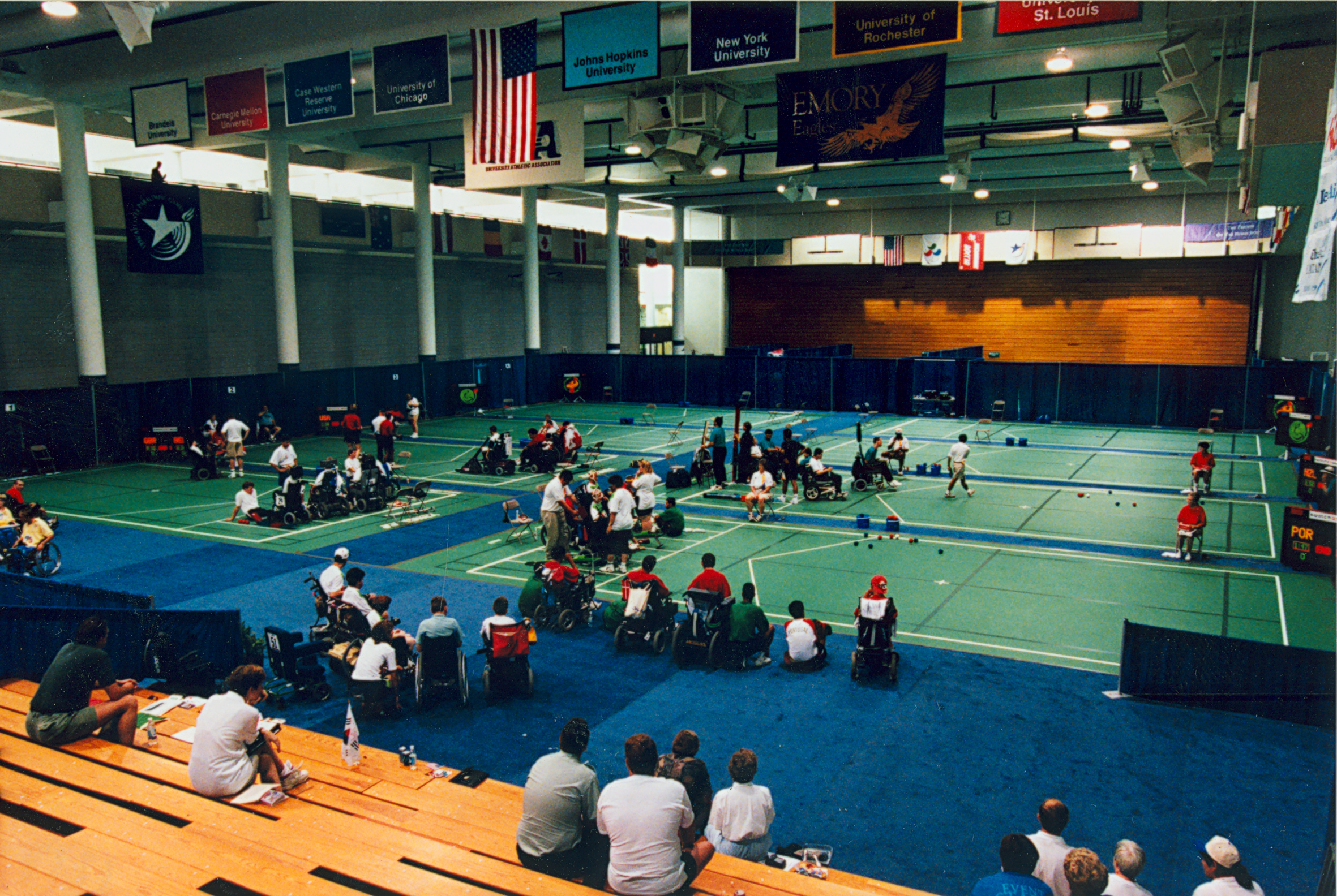 The boccia venue at the Atlanta 1996 Paralympic Games. The Australian bronze medal winning team of Kris Bignall and Tu Huynh is competing on the near right court.